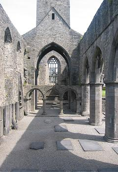 An original photograph taken by me in June 2006